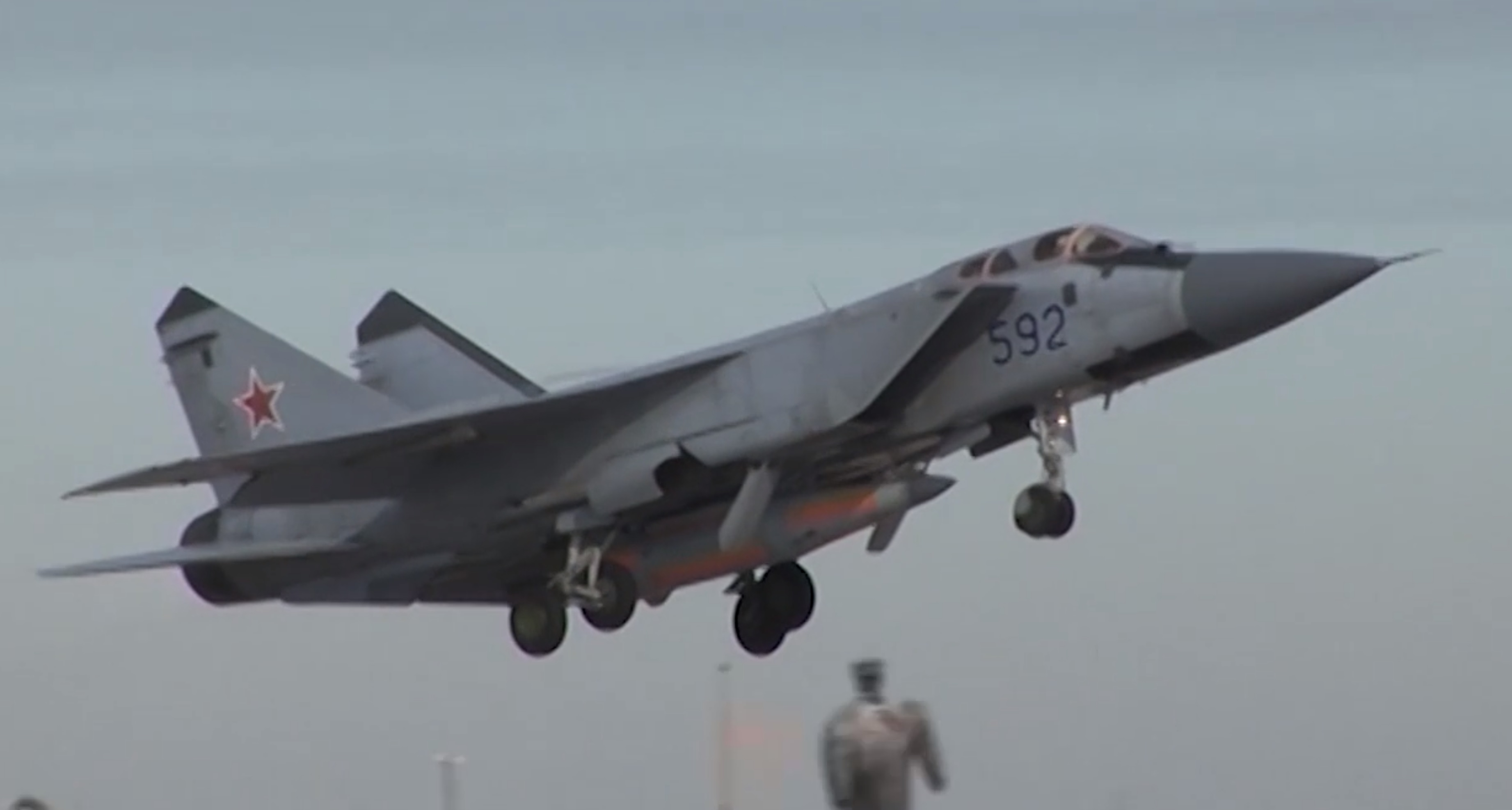 Russian air-launched hypersonic missile called Dagger (Kinzhal) placed on the aircraft carrier MiG-31